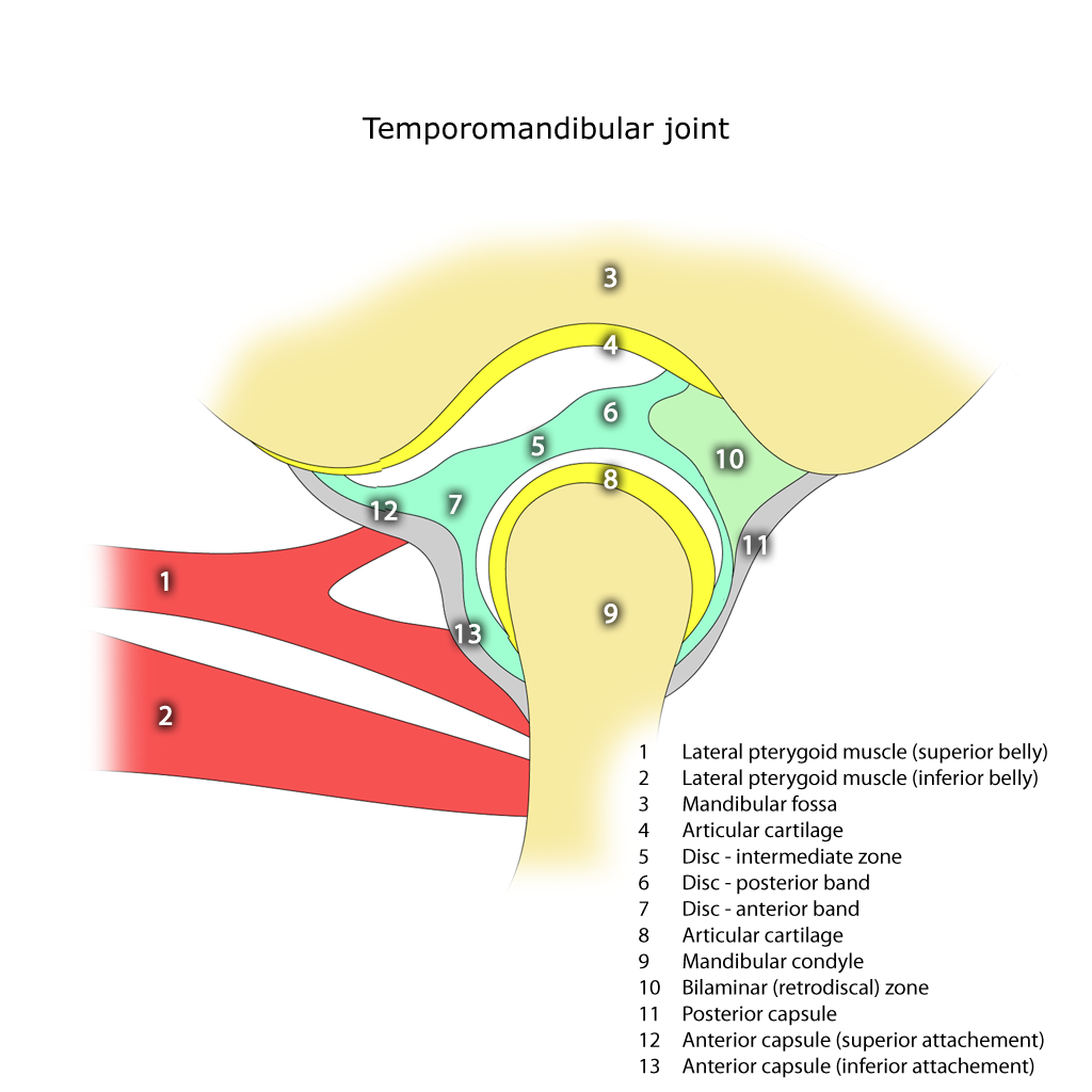 Normal anatomy of the Temporomandibular joint